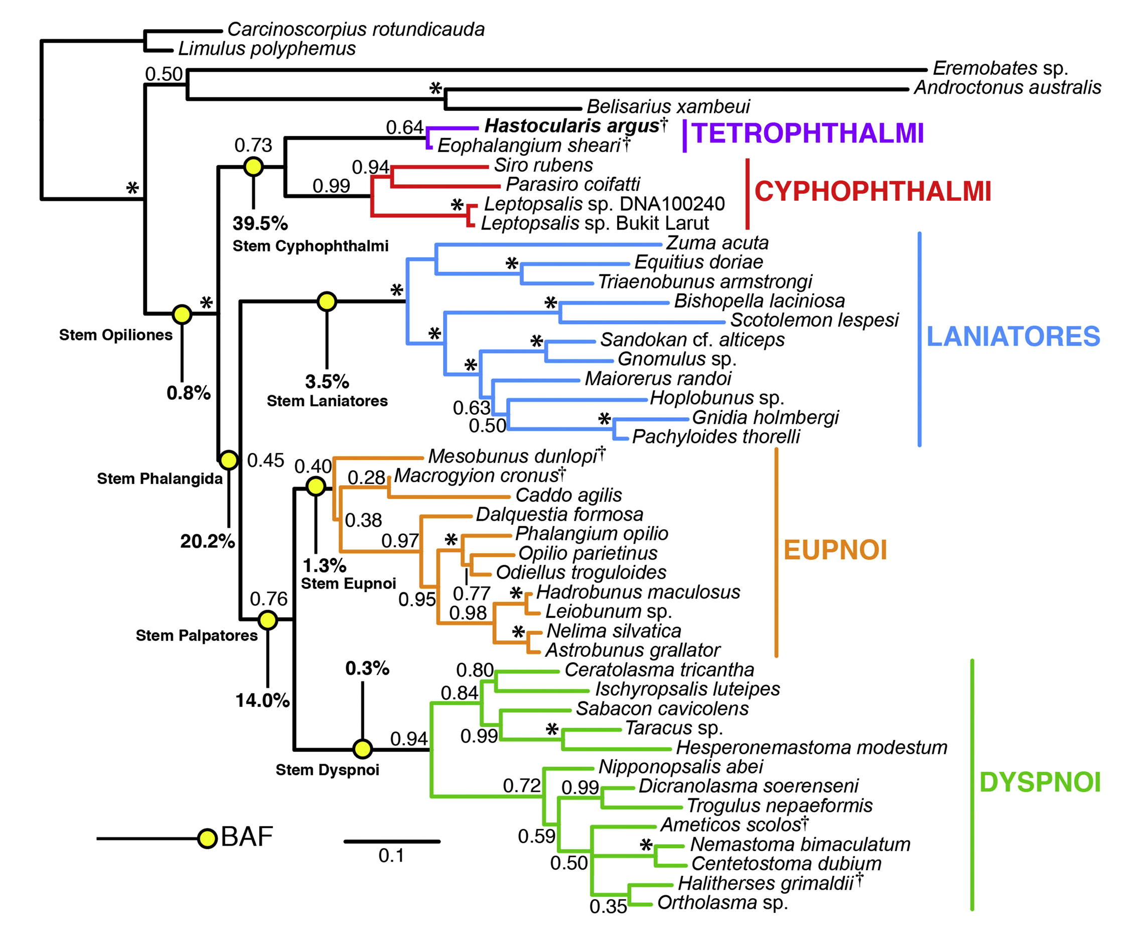 Total evidence phylogeny incorporating morphology and molecules for extinct and extant species. Colored branches correspond to suborders. Numbers on nodes are posterior probabilities. Yellow icons indicate branch attachment frequencies for Tetraophthalmi.